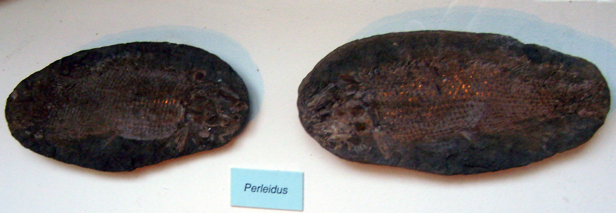 Perleidus fossil slabs at the Geological Museum in Copenhagen.